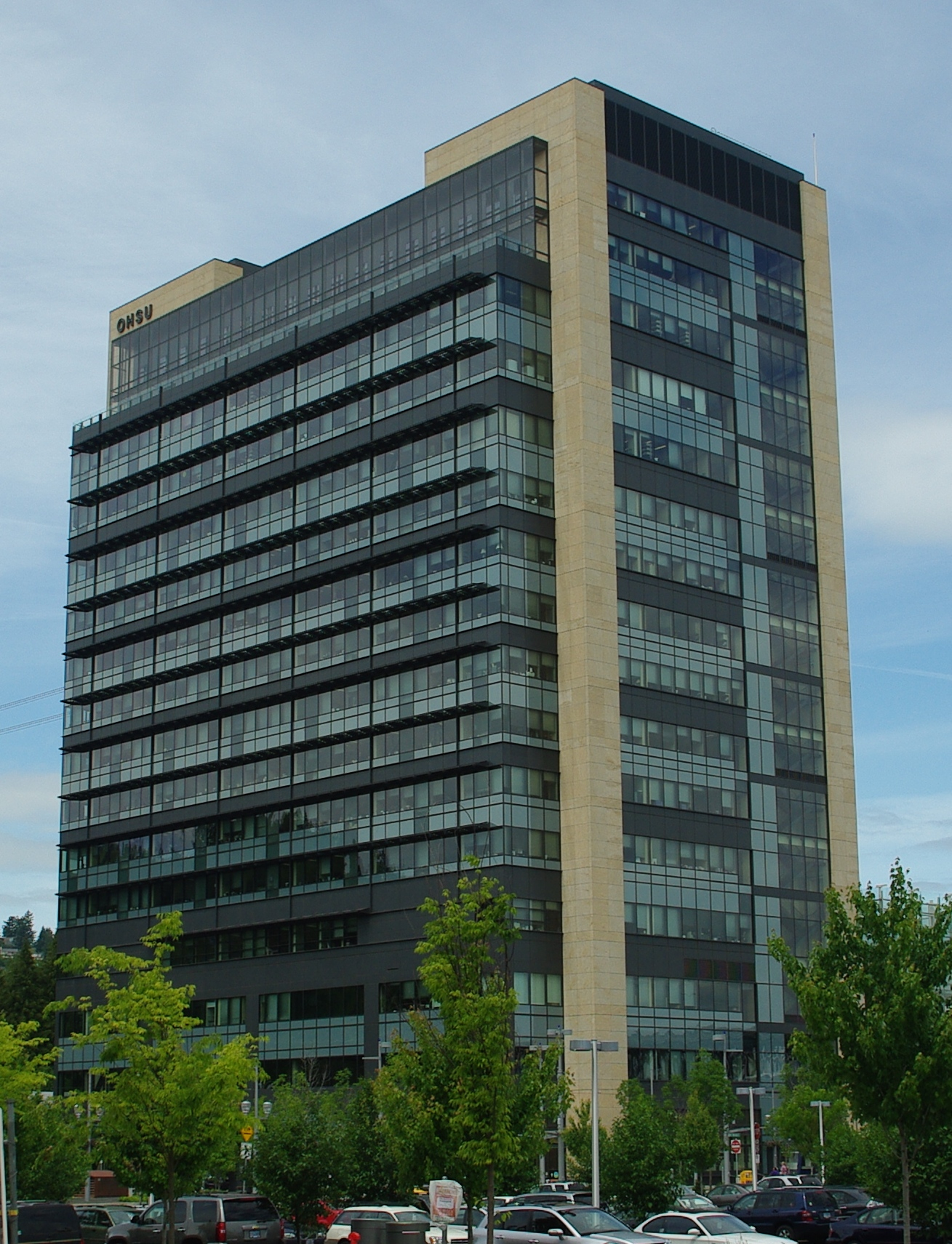 OHSU Building 1 in the South Waterfront district of Portland, Oregon, USA, viewed from the southeast.